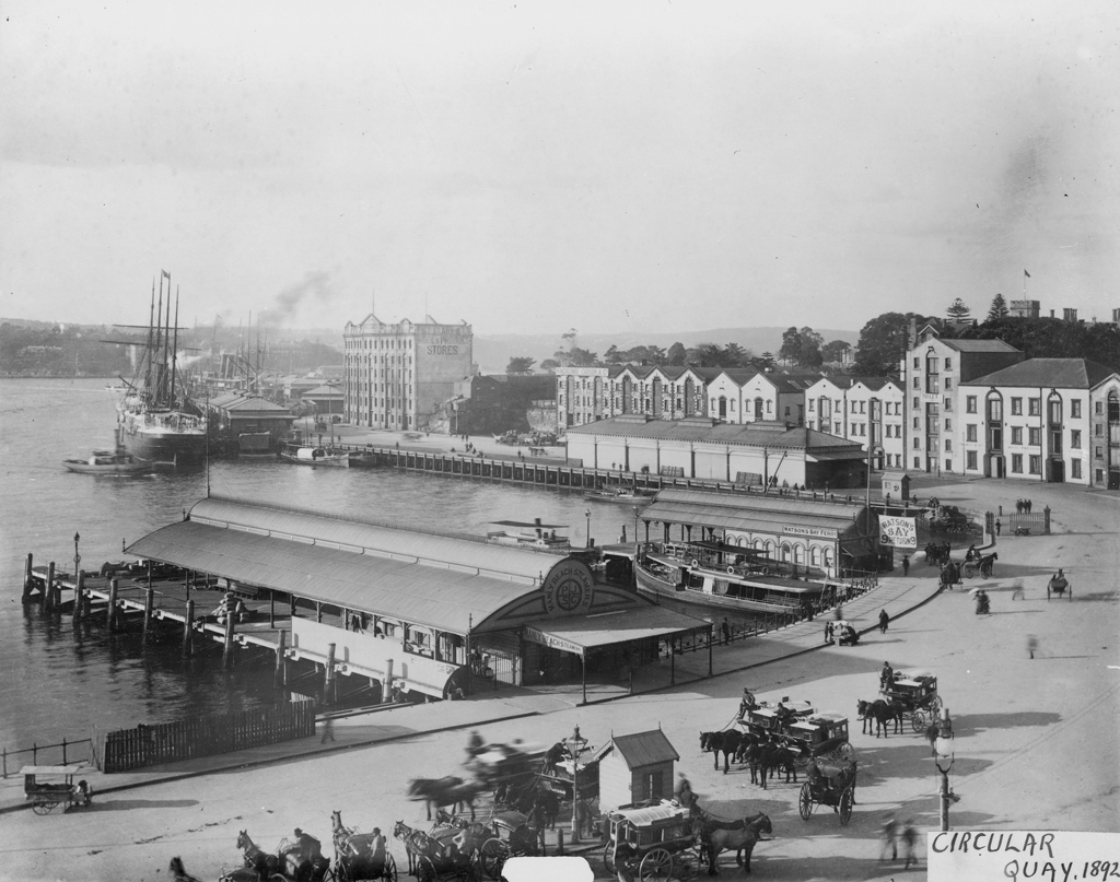 Format: Glass plate negative. Repository: Tyrrell Photographic Collection, Powerhouse Museum Part Of: Powerhouse Museum Collection General information about the Powerhouse Museum Collection is available at Persistent URL: [1] Acquisition credit line: Gift of Australian Consolidated Press under the Taxation Incentives for the Arts Scheme, 1985